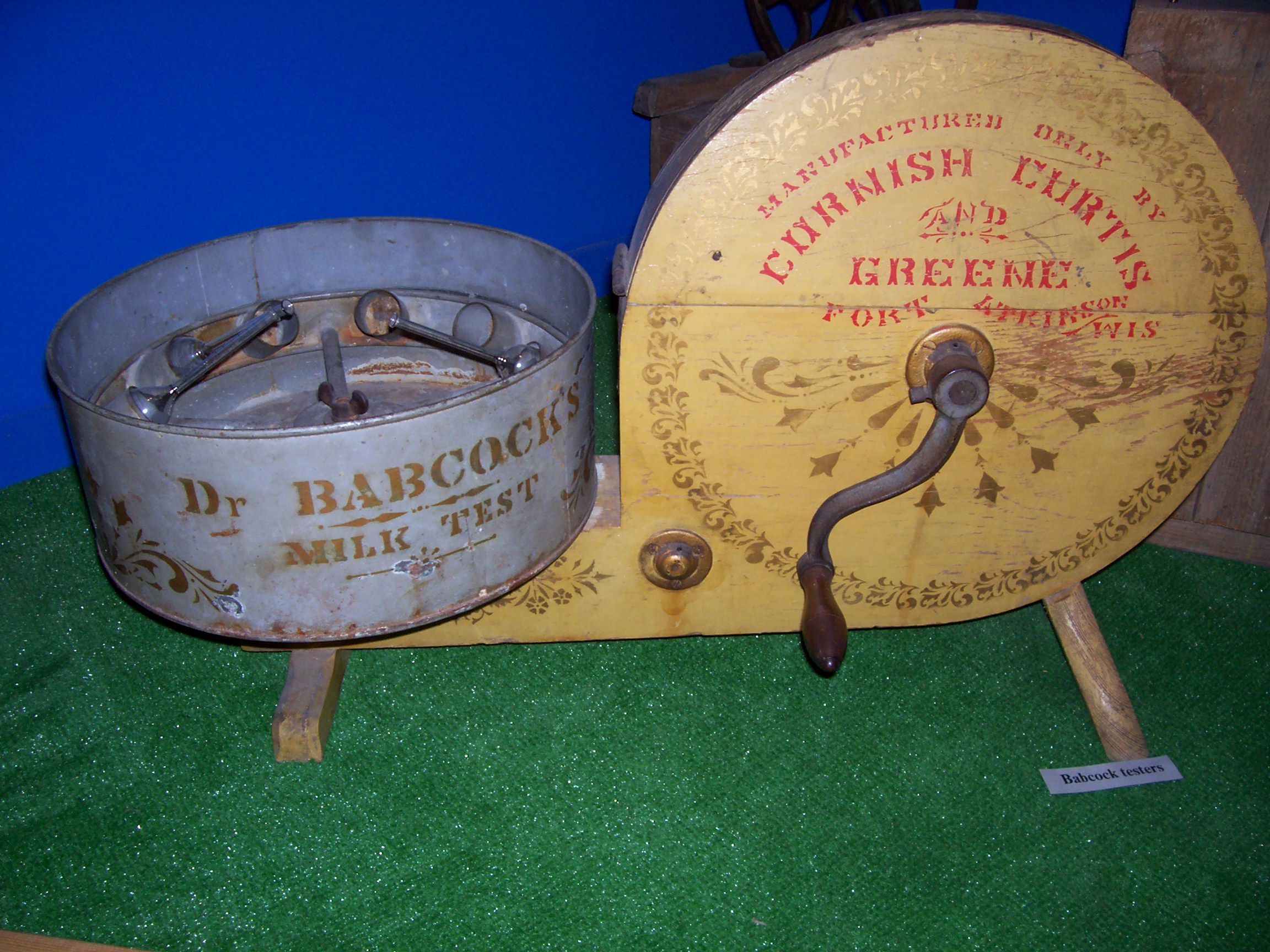 An upright Babcock test machine. Taken at the National Dairy Shrine in Fort Atkinson, Wisconsin, USA.